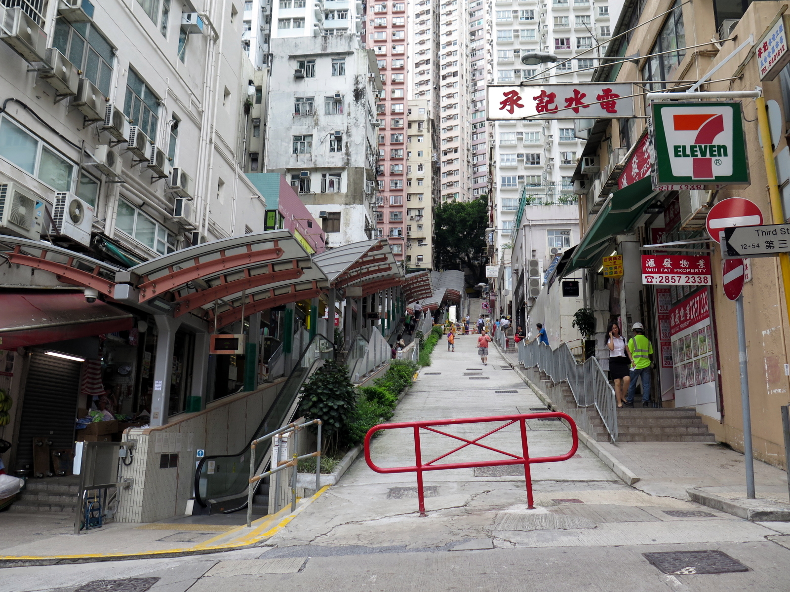 Centre Street, Sai Ying Pun